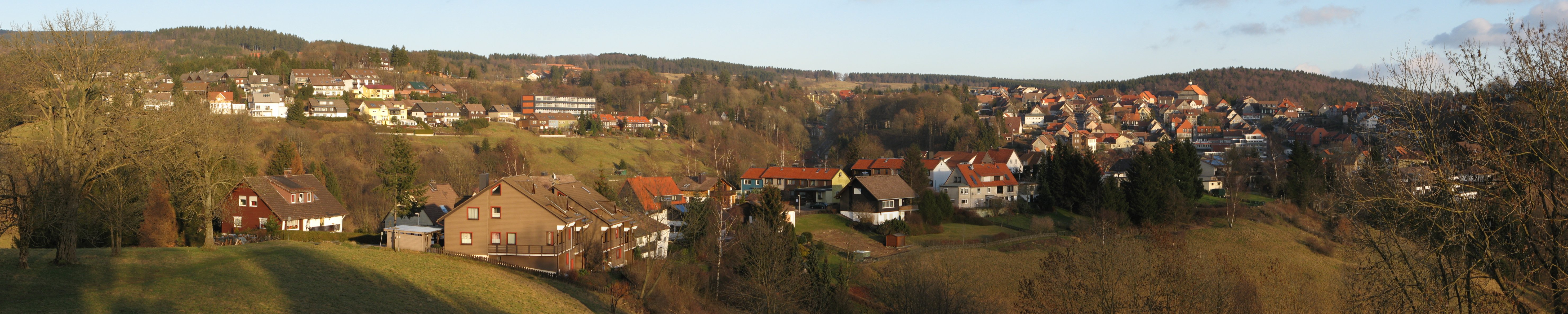 Panorama of Sankt Andreasberg shot from the Galgenberg at January 14, 2007.